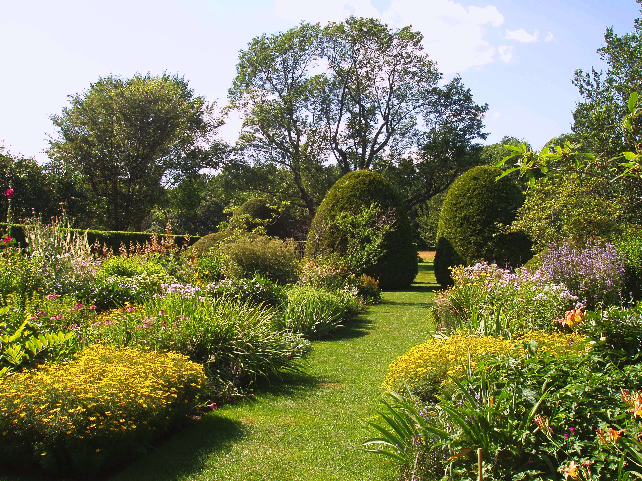 Stevens-Coolidge Place, Andover, Massachusetts (flower garden). Photograph by me, July 2005.